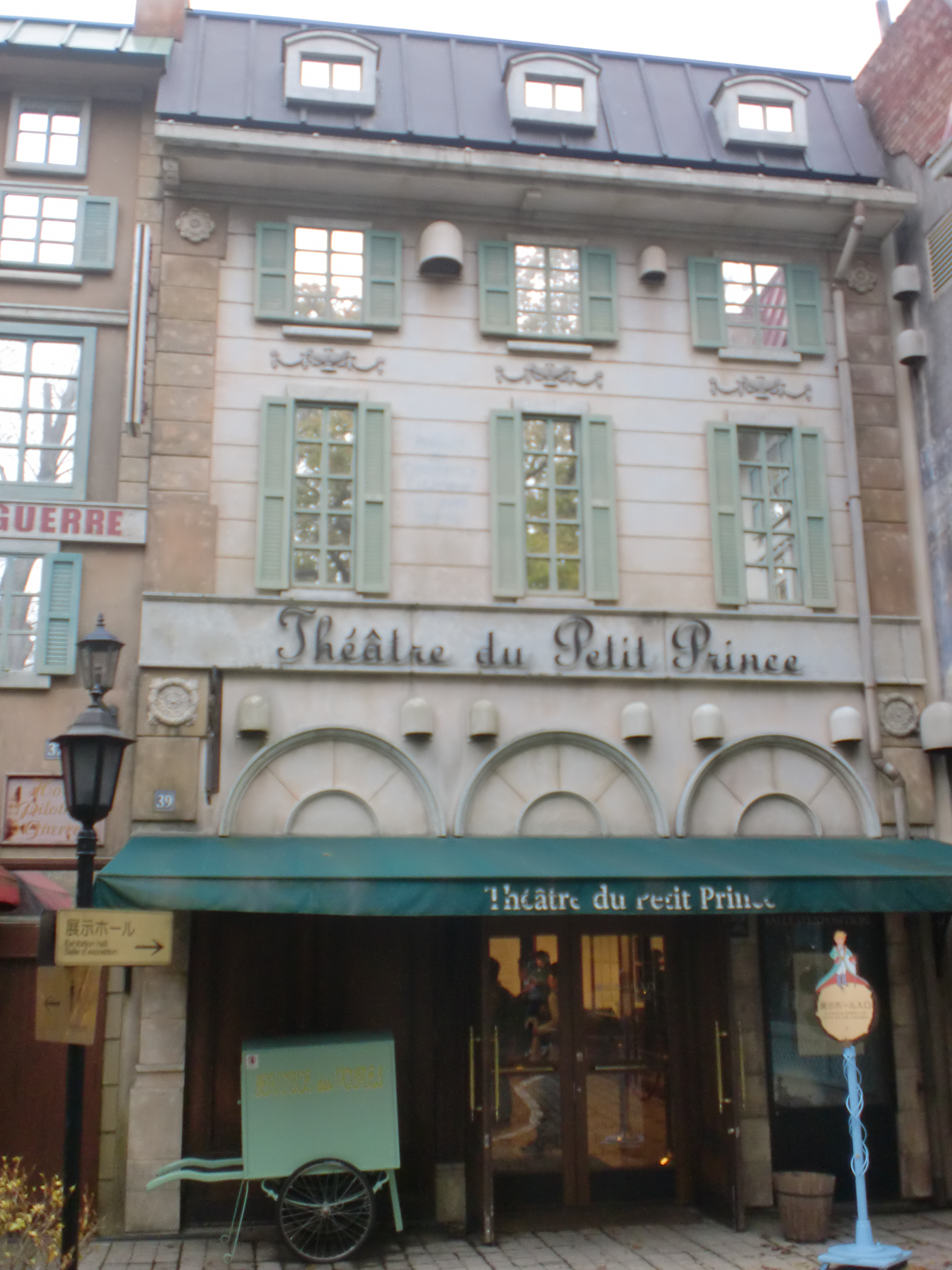 Musée du Petit Prince de Saint-Exupéry